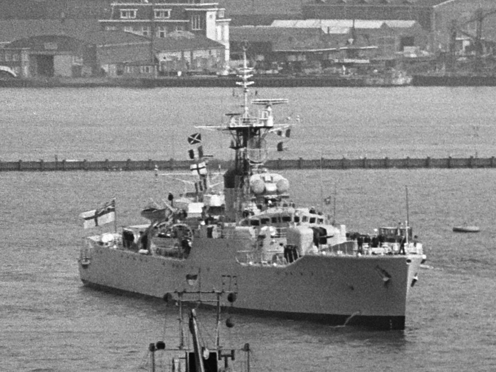 The Royal Navy frigate HMS Eastbourne (F73) visiting Amsterdam, the Netherlands, on 23 May 1969.